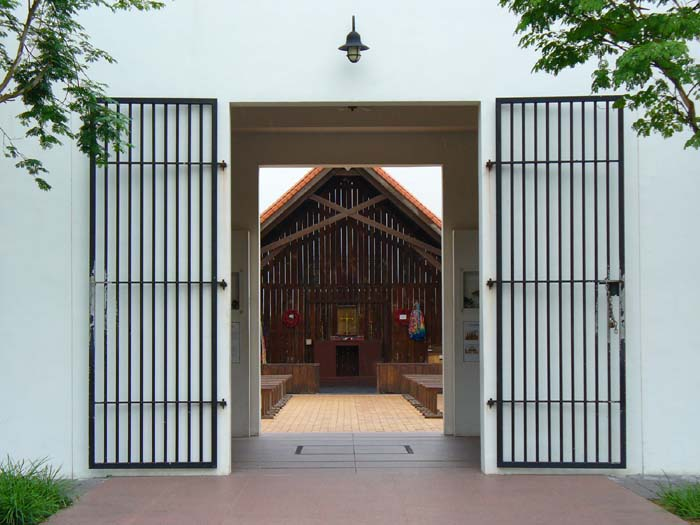 Entrance to the Changi Chapel & Museum, where a replica of the Changi Murals is on display, Singapore.